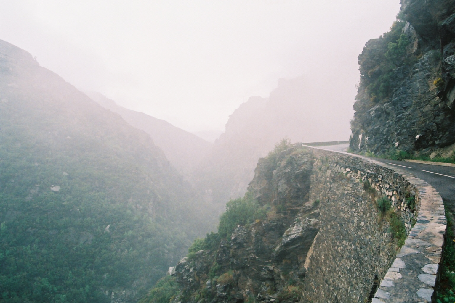 Mountain road (D81) in Corsica with fog [1]